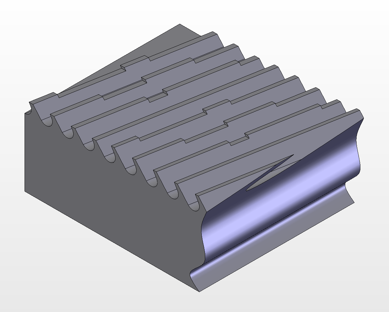 A double-cut surface broach. Isometric view. Modeled in Solidworks. Based on diagram on from Degarmo, E. Paul; Black, J T.; Kohser, Ronald A. (2003), Materials and Processes in Manufacturing (9th ed.), p. 639. Wiley, ISBN 0-471-65653-4.